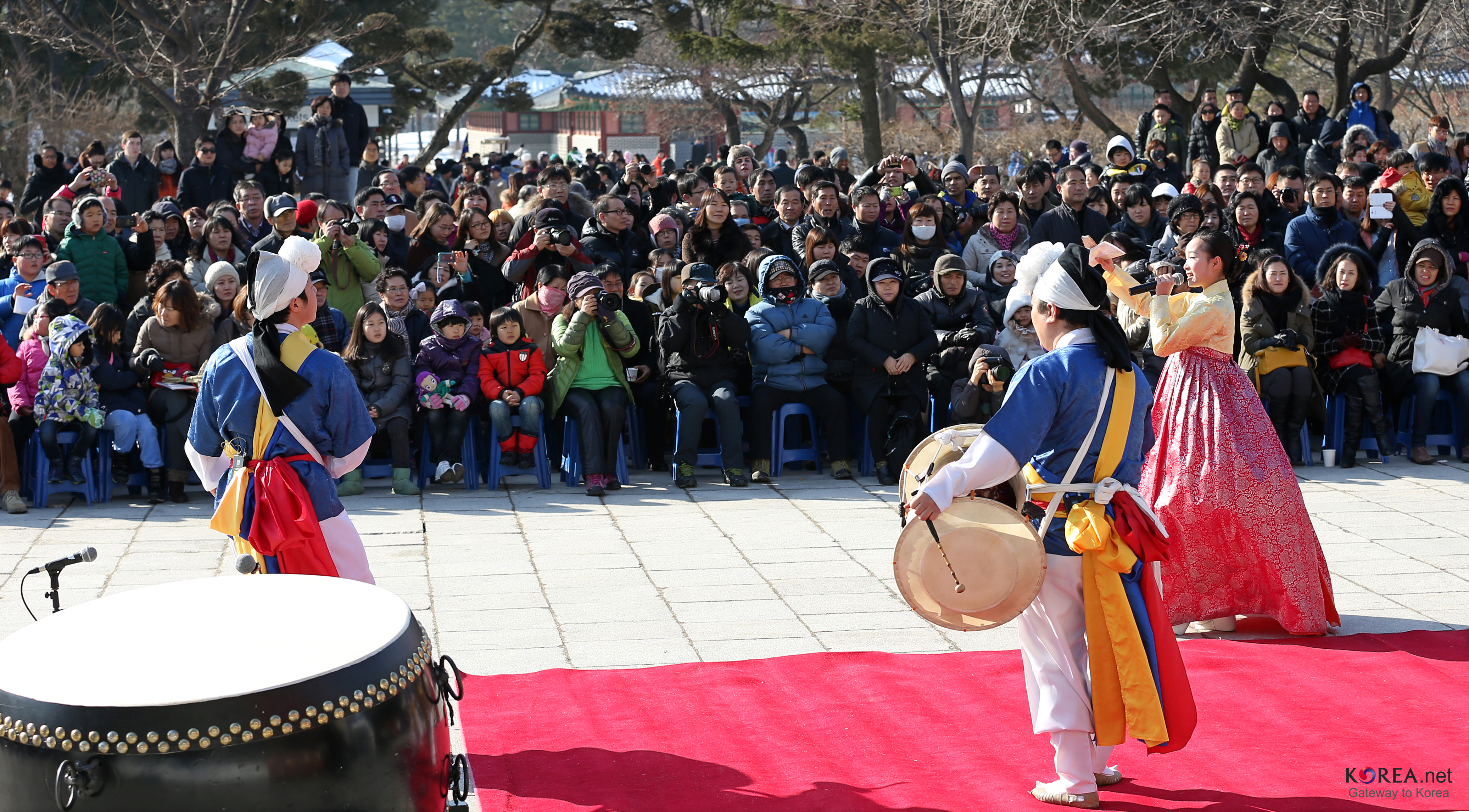 2013 Seollal Sketch National Folk Museum, Seoul 2013.02.11. Ministry of Culture, Sports and Tourism Korean Culture and Information Service Jeon Han (Related Article) Seollal seasoned with traditional foods and folk games 2013년 설날 스케치 국립민속박물관, 서울 문화체육관광부 해외문화홍보원 코리아넷 전한